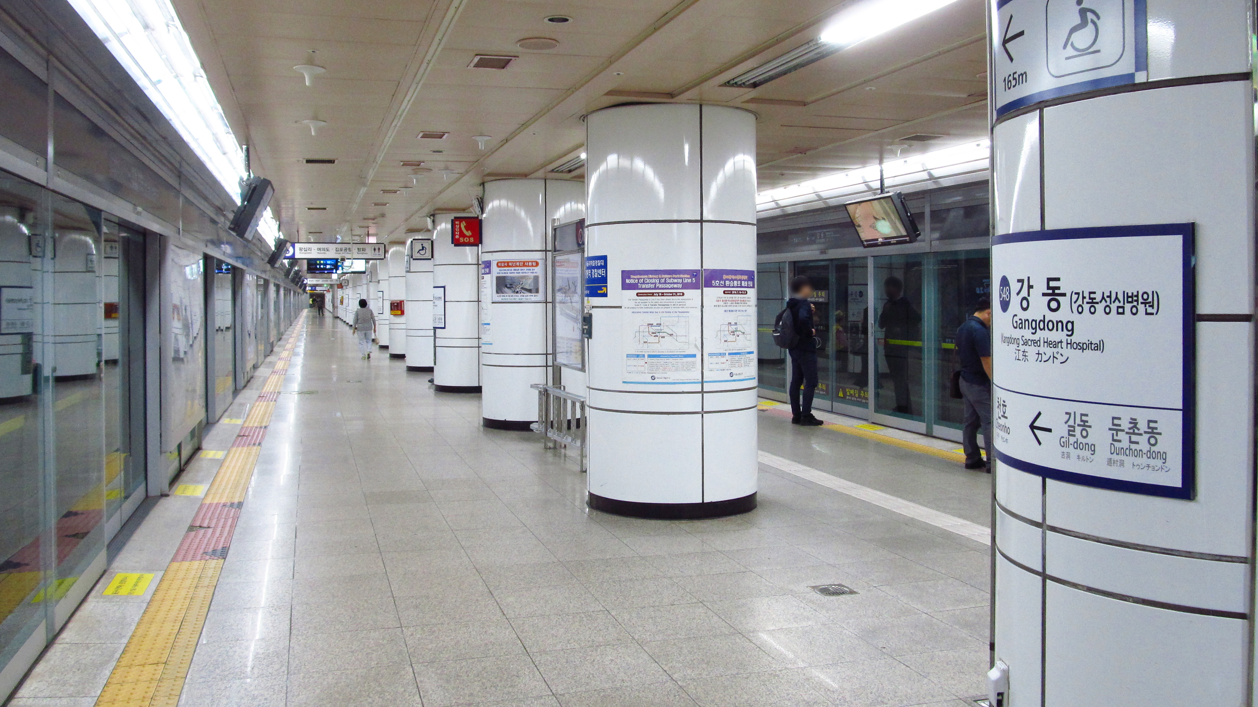 The platform at Gangdong Station on Seoul Subway Line 5 in Gangdong-gu, Seoul, Republic of Korea(South Korea)